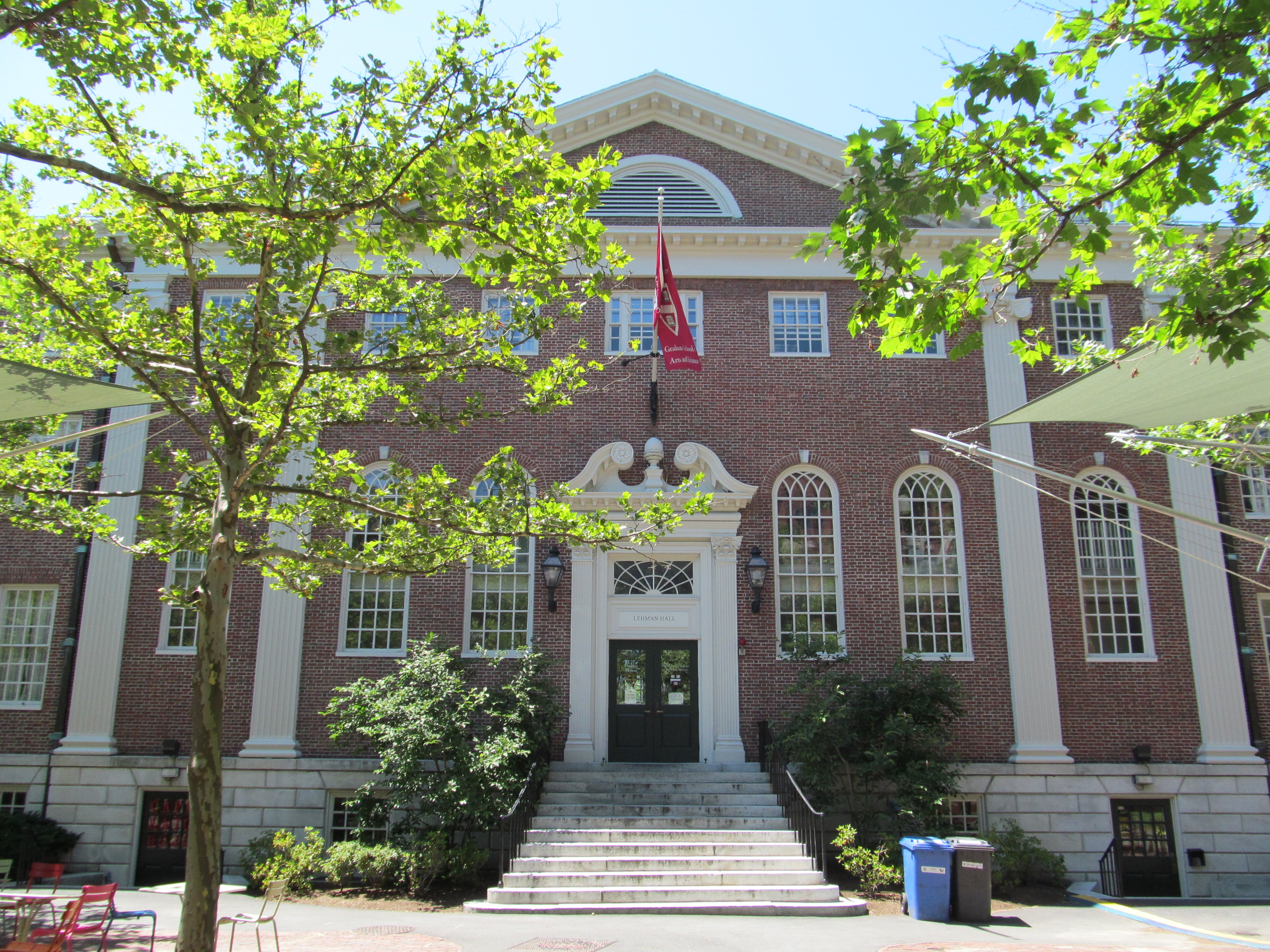 Dudley House, Harvard College, Cambridge Massachusetts